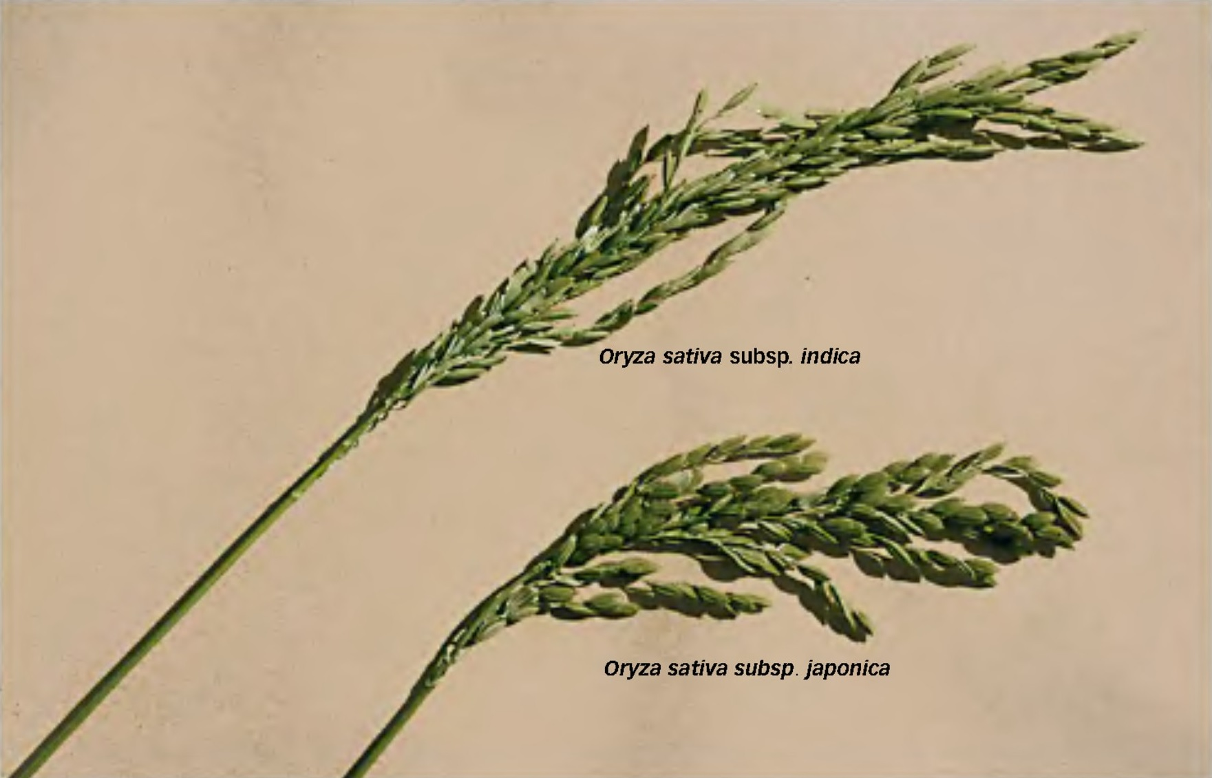 Panicles of Oryza sativa subspecie indica (top) and subspecie japonica (bottom).